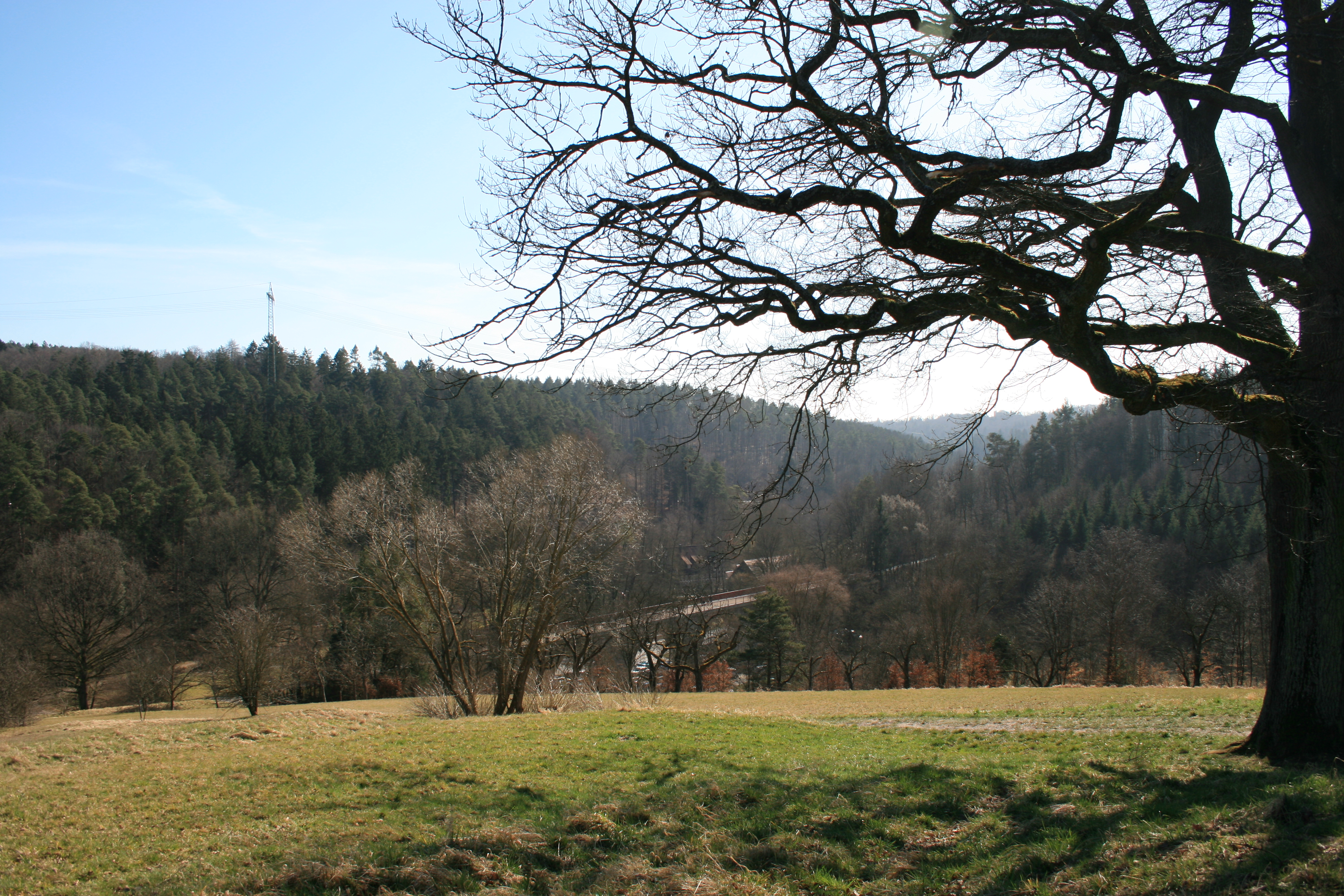 (NSG:BW-1.276)_Siebenmühlental from the Musberger Eichberg , in the foreground of the bike path along the K1227